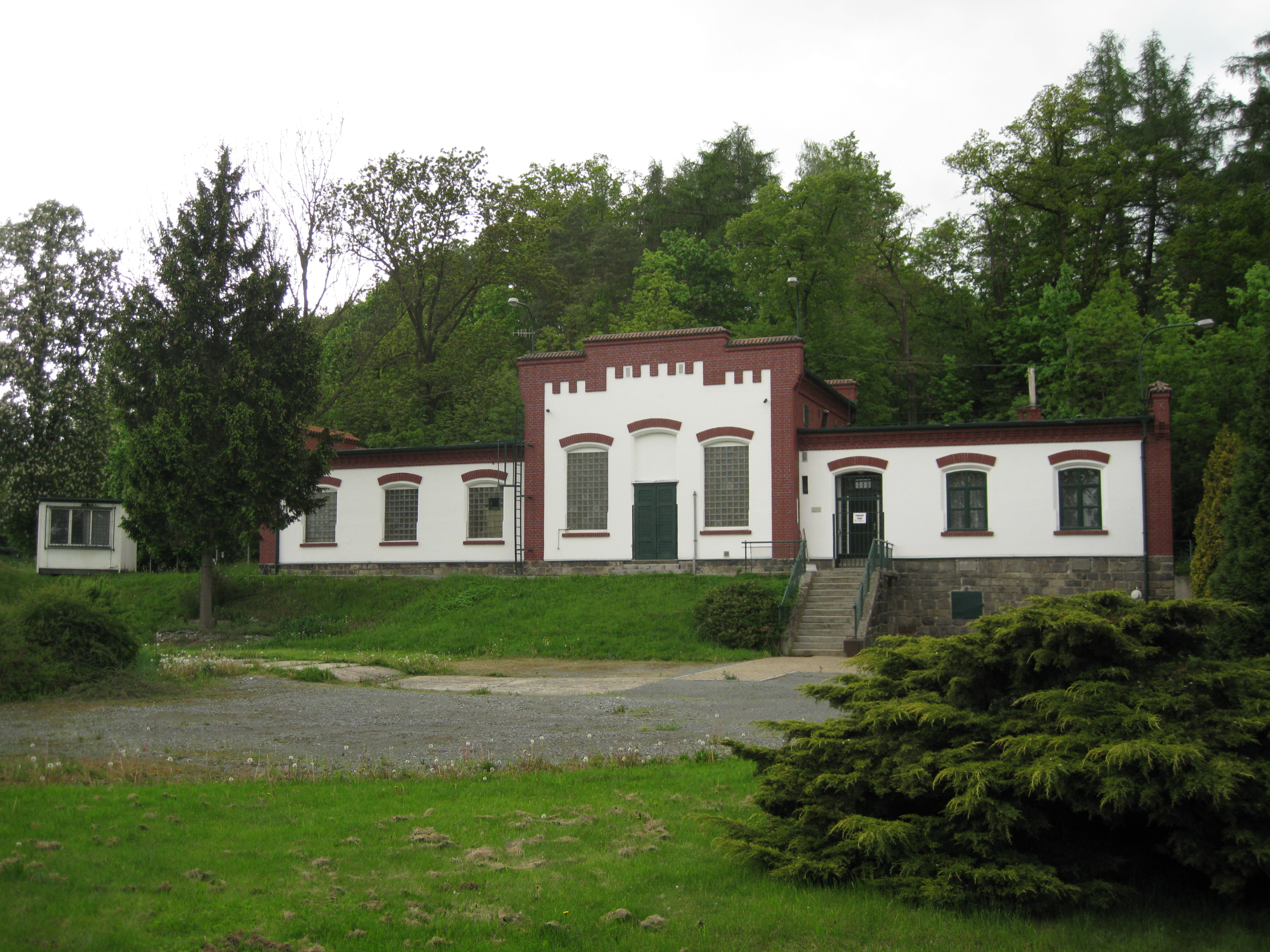 Pivovarské studny Plzeňského Prazdroje na Roudné.